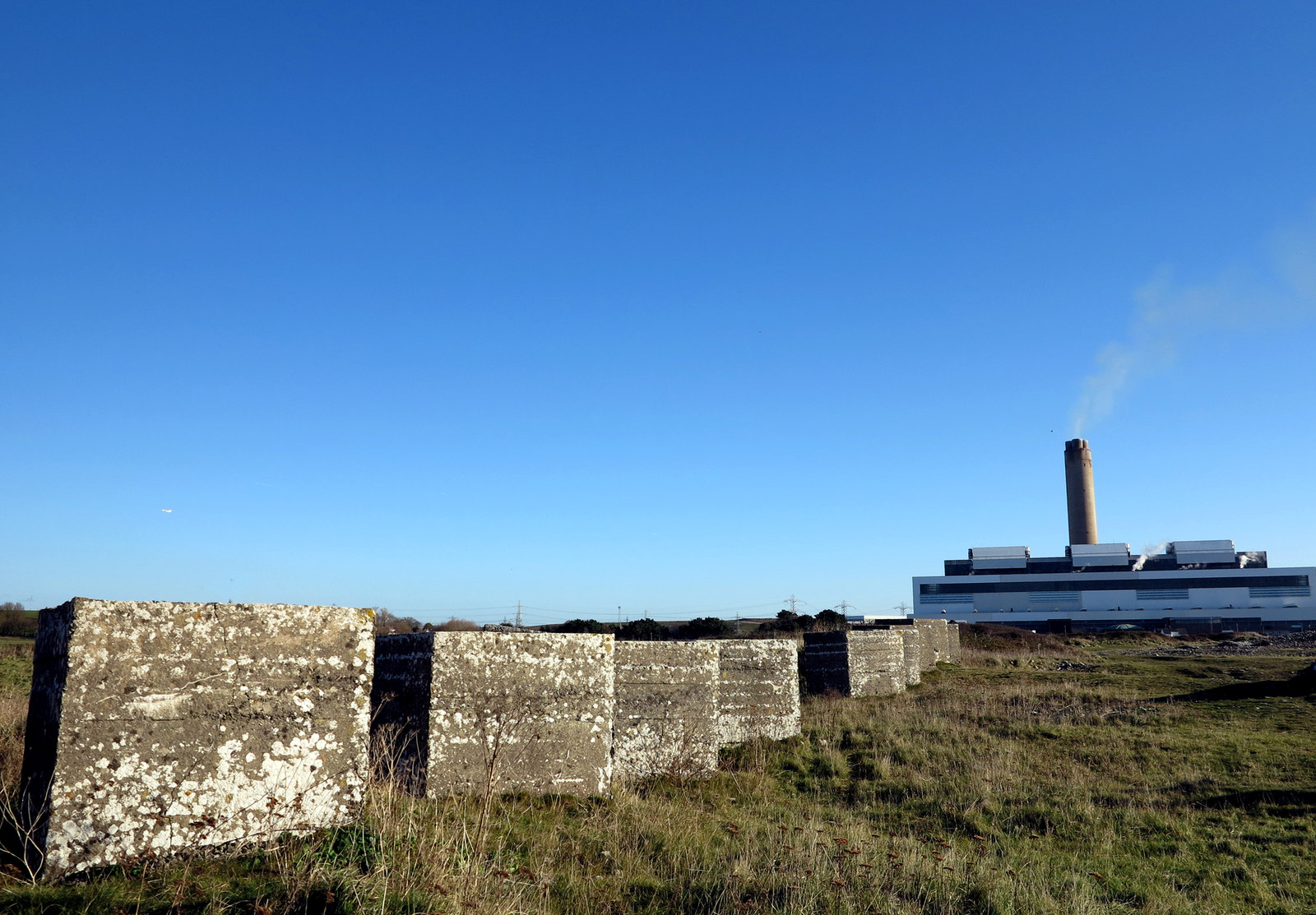 Anti-tank defensive concrete blocks. Mass concrete cubes about 1.4 metre high in their original location on Limpert Bay Beach, West Aberthaw to defend against possible invasion in WW II. Note the "sharp" edges of the cubes face the sea and there is a gap of about 1 metre between adjacent blocks. Since the war, some of the blocks along the defensive line have been moved to provide a contiguous line (as a protection against beach shingle encroaching on farm land) near to the Aberthaw power station (which can be seen in the background to this photograph).